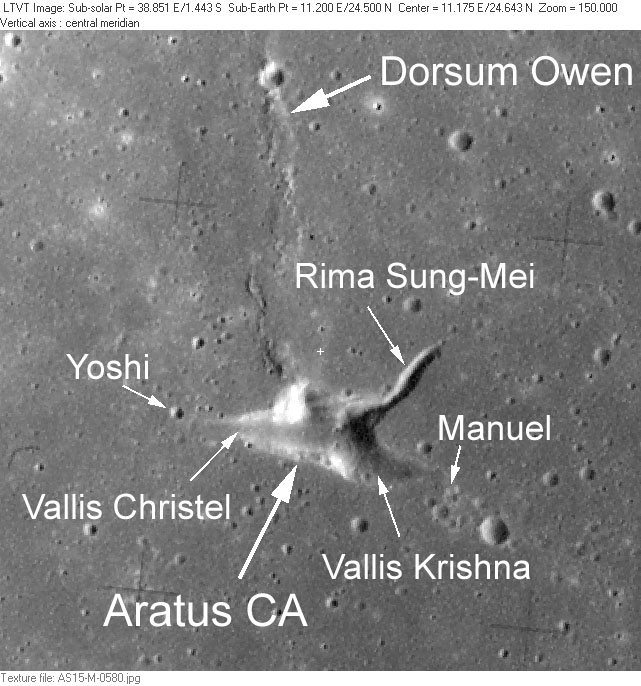 Moon crater Aratus CA. Detail from Apollo 15 metric image AS15-M-0580, remapped to a north-up aerial view by LTVT.